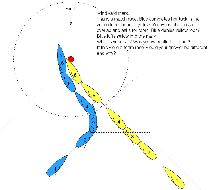 created by bryan mcdonald